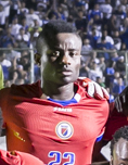 NICARAGUA VS. HAITI 3 - 0